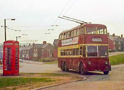 Cardiff Trolleybus route 10B at Ely A view taken to complement 552650 complete with the same 'phone box! The route 10 at Ely was the last extension to the Cardiff Trolleybus system before a change of policy led to its run down in favour of diesel buses and eventual closure in 1970. If I remember correctly the 10A and 10B both ran to Ely but took opposite directions on a loop around the housing estate. I think this picture was taken only months before closure, but I'm open to correction. The original slide was very underexposed and it is only thanks to modern digital processing that it has been possible to recover this image.